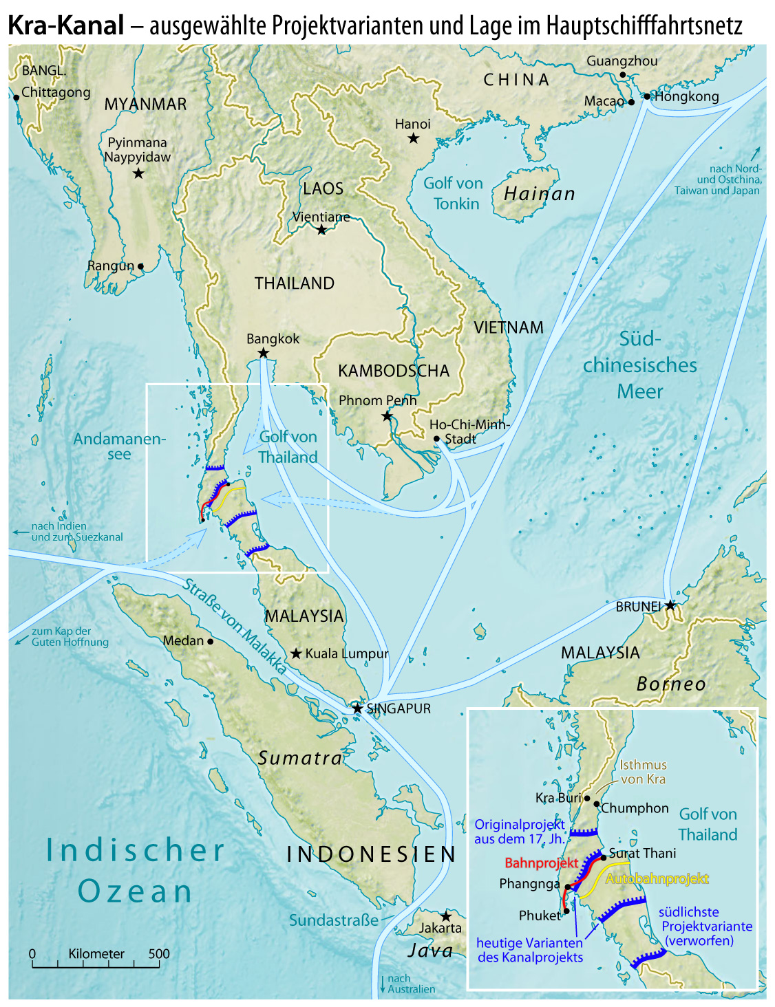 Map of selected project variants of the Thai Canal